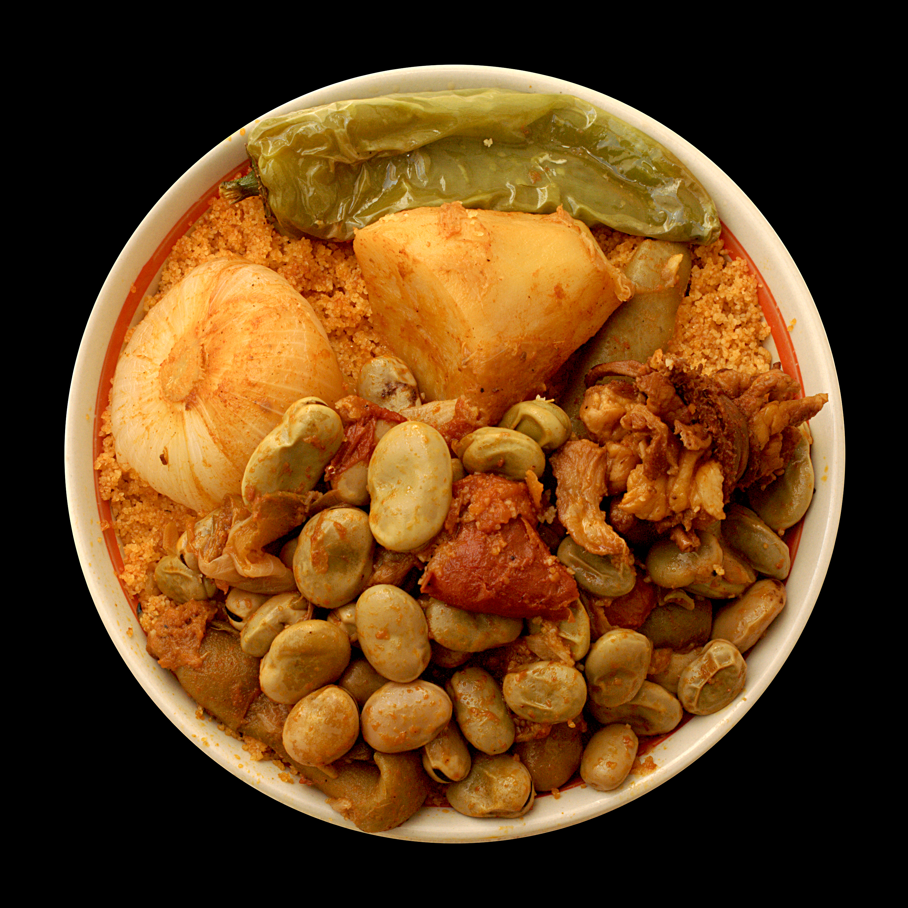 Couscous with vegetables and kadid, Tunisia